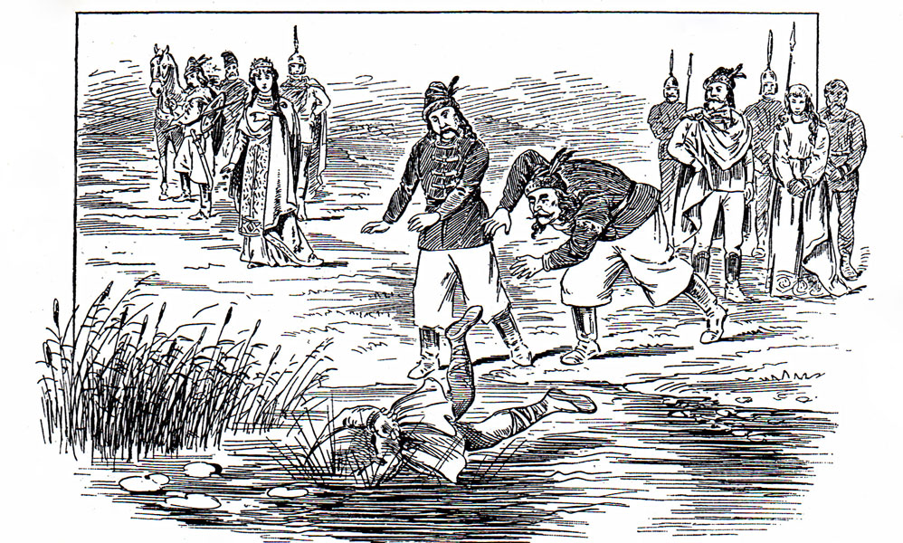 Grand Župan Časlav thrown into the Sava (around year 950). drawing.